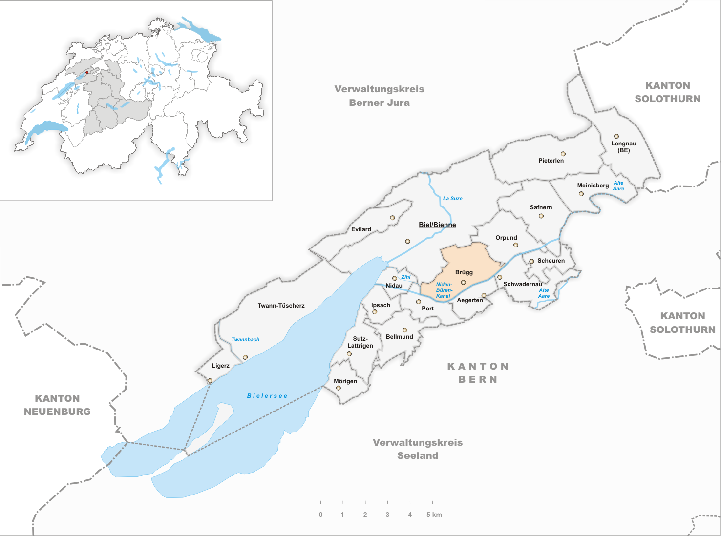 Municipality Brügg